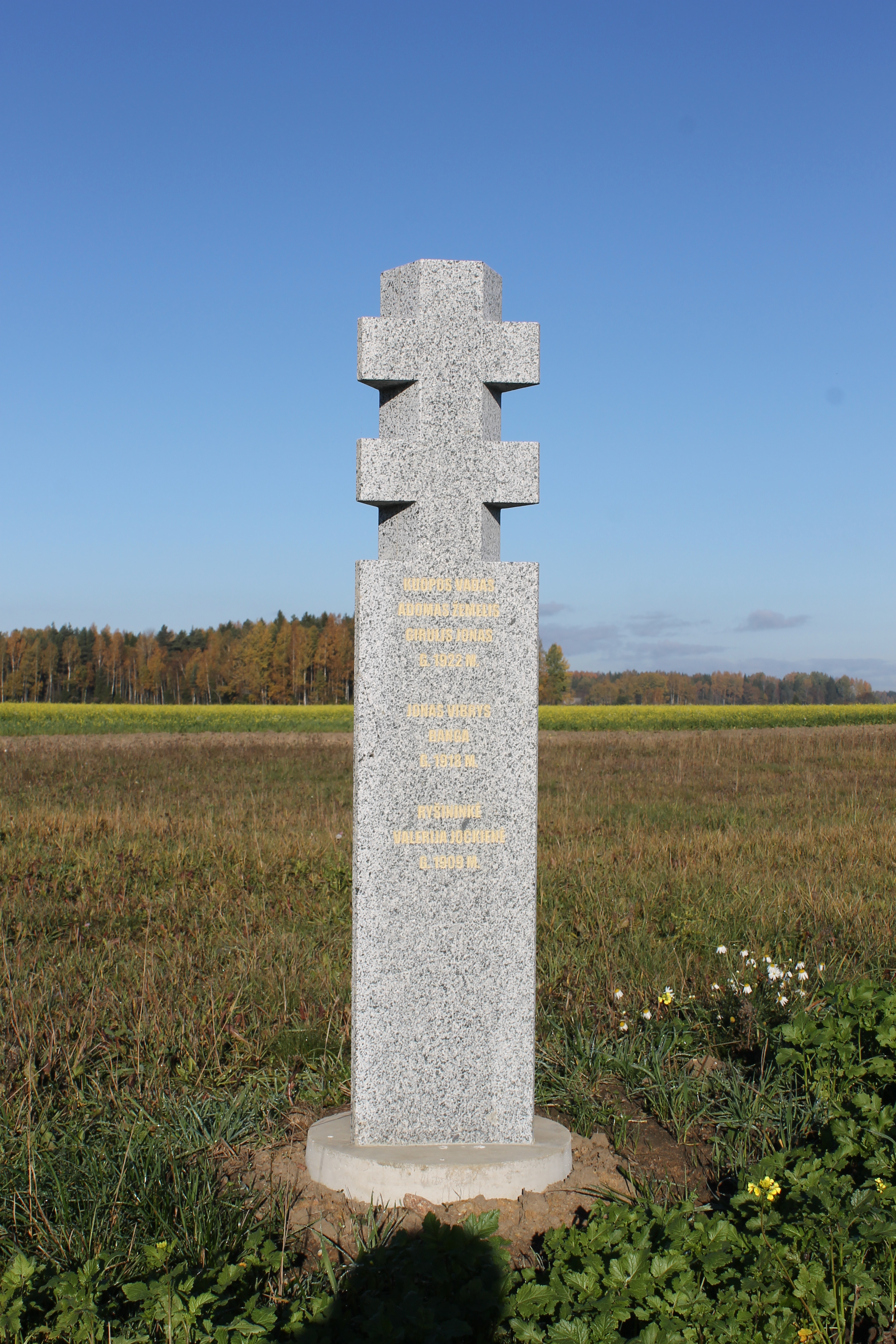 Memorial sign of the Partisans in the village of Barzdžiai Medsėdžiai, Kretinga district municipality, Lithuania